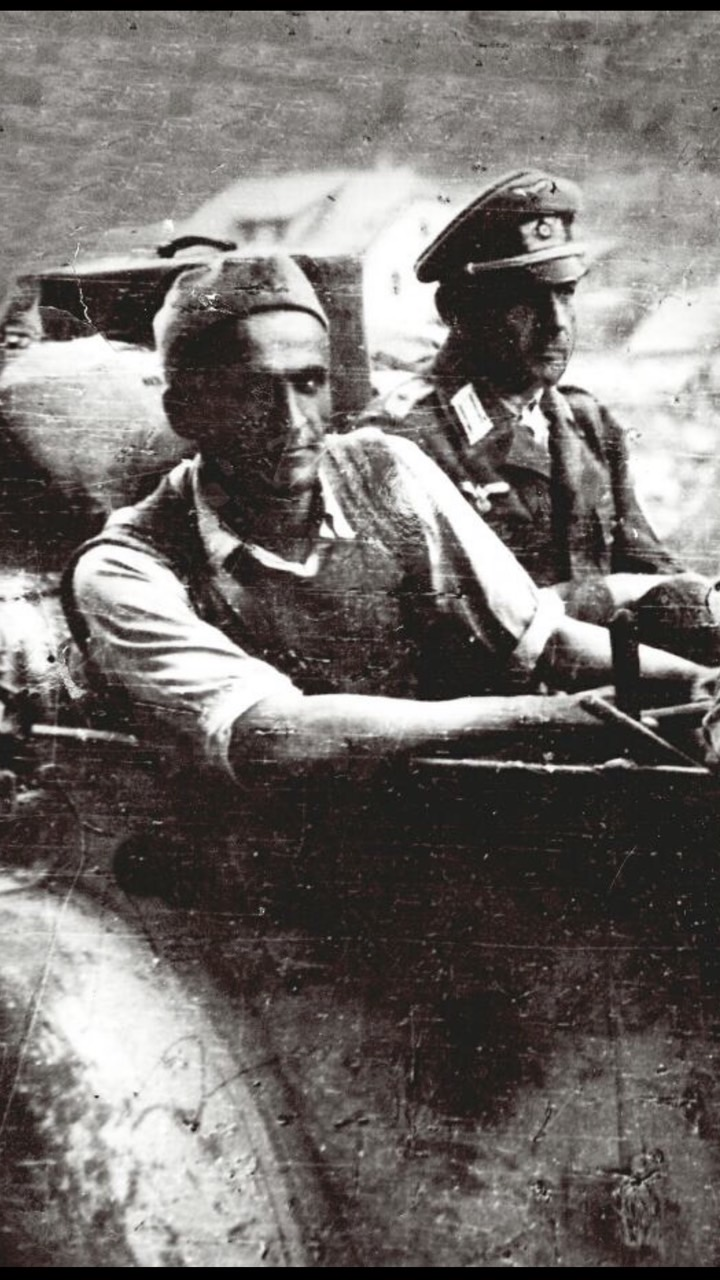 Petar Vojvodic arrested german general August Schmidhuber(commandant SS Prince Eugen division) in 1945